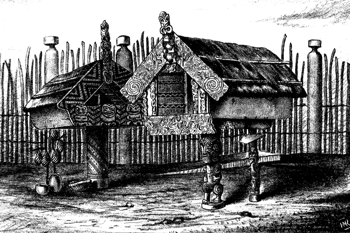 Two carved pātaka (raised food stores) Māori, New Zealand, 19th century